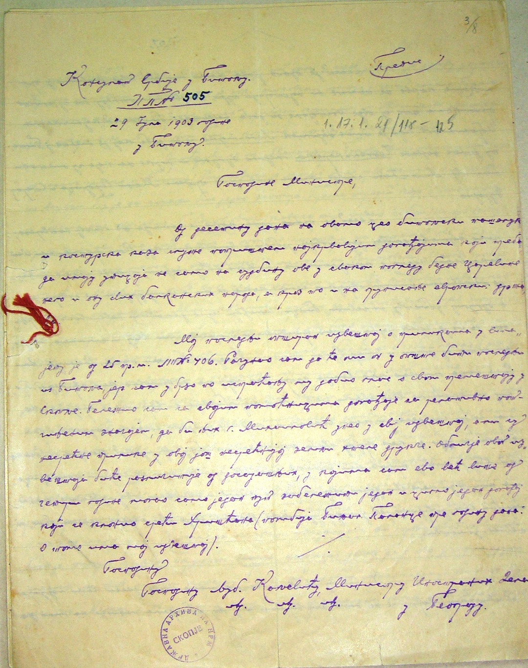 Report Mihailo Ristic Consul in Bitola to Ljuba Koljevic, Minister of Foreign Affairs, the events in the vilayet of the day of the uprising. (Bitola, July 29, 1903) This media file is produced by Wikipedian in Residence in Category:Wikipedian in Residence at DARM in 2016.